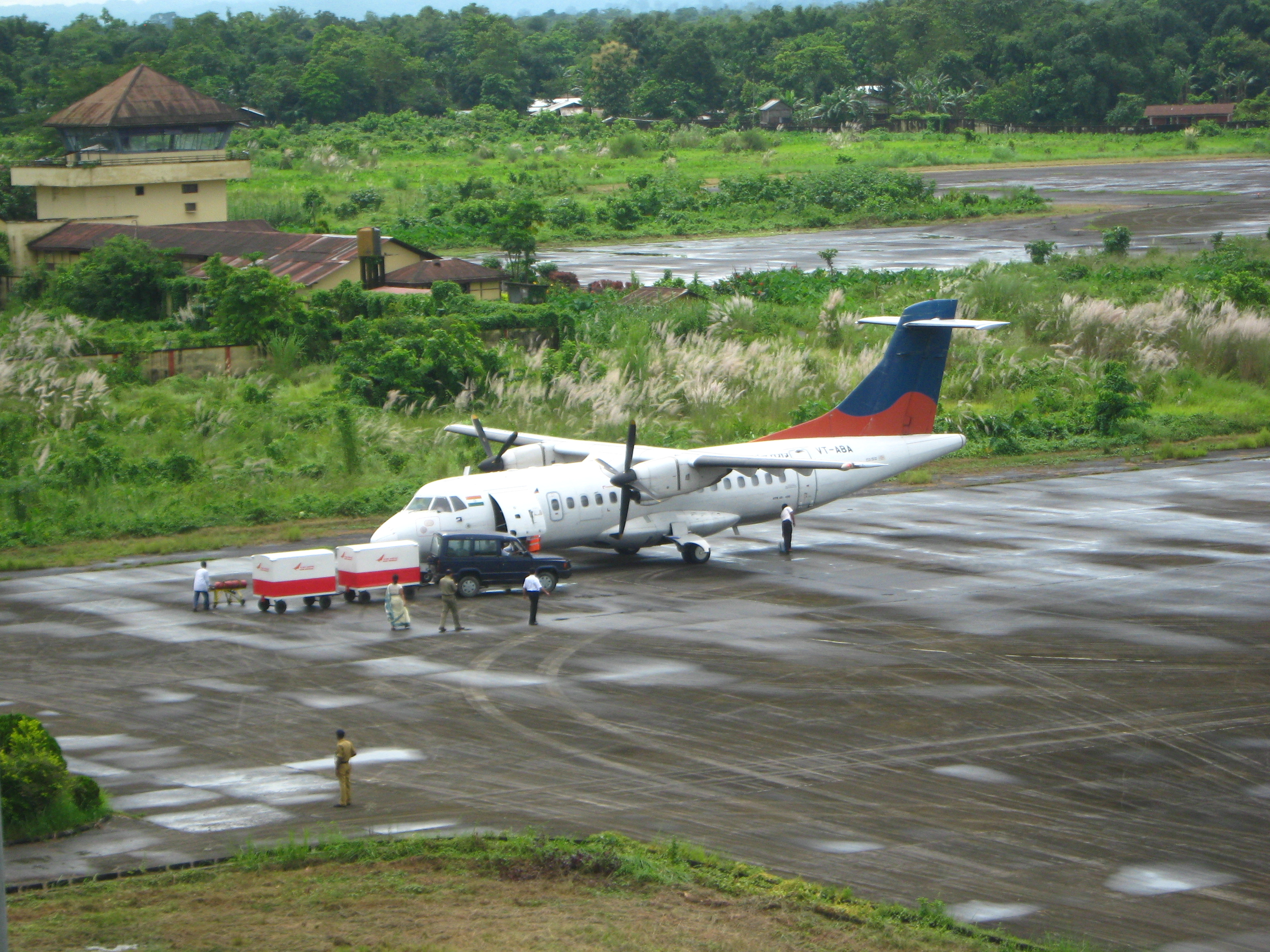 Alliance Air ATR 42 (VT-ABA) at Lilabari Airport